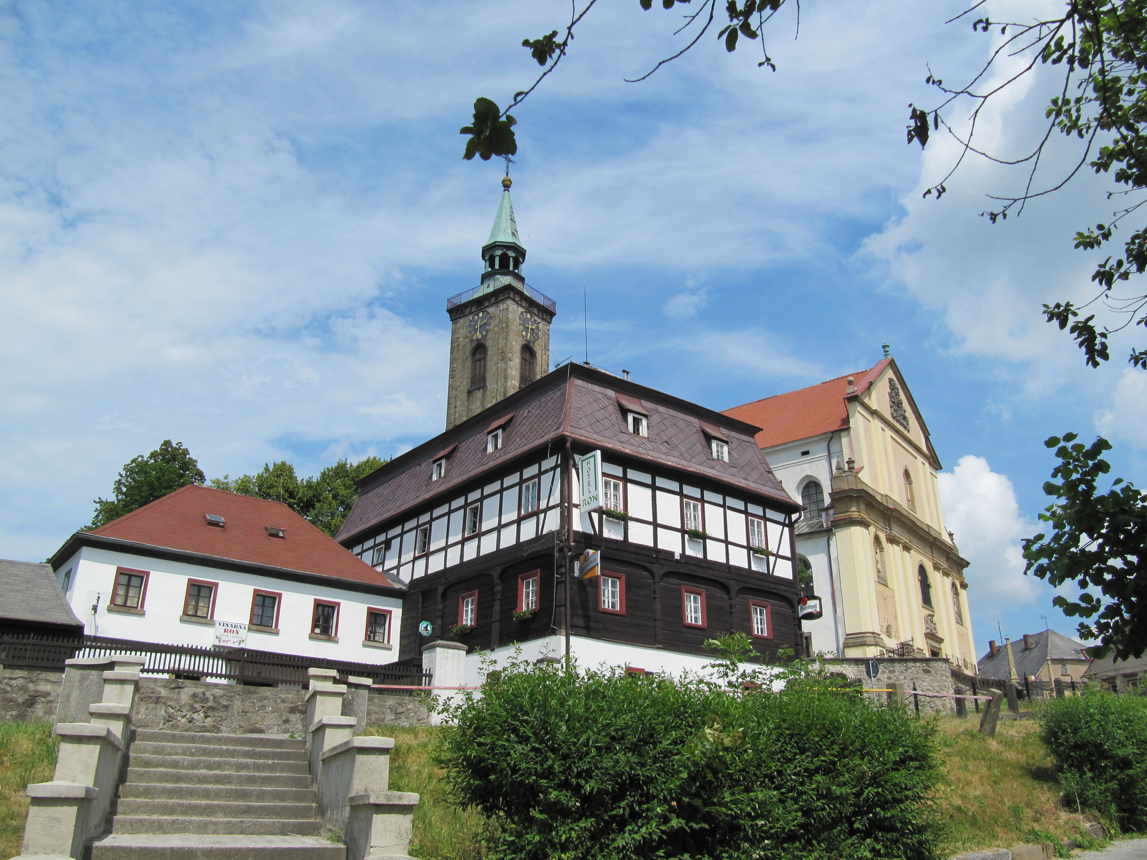 Mikulášovice in Děčín District, Czech Republic. St.-Micholas-church and a timbered house.